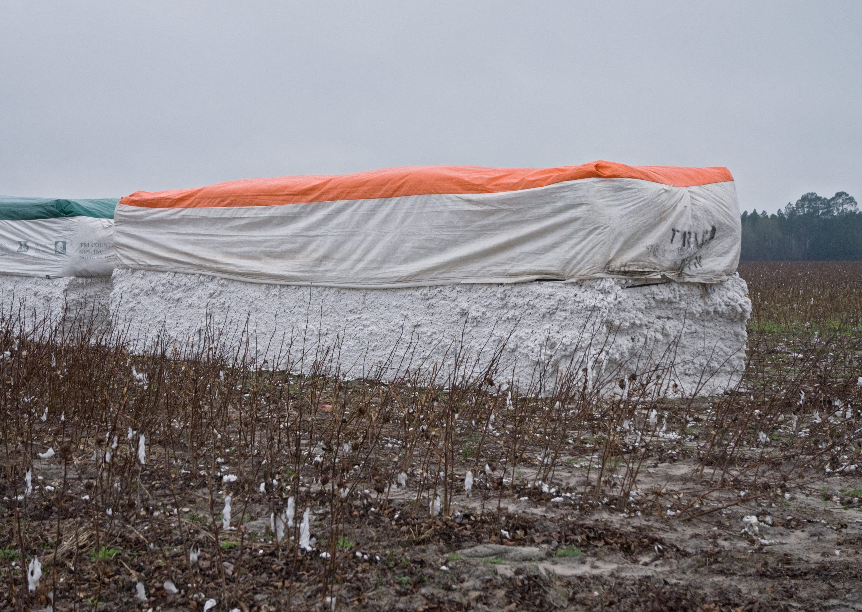 Seed cotton compressed into a module, temporarily stored in the harvested cotton field, awaiting transport to a processing factory (Clinch County, Georgia, USA, January 2014).